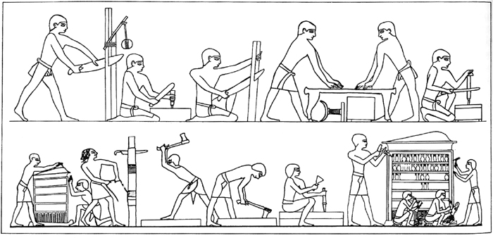 Drawing of the part of wall painting in the tomb of Rekhmire.